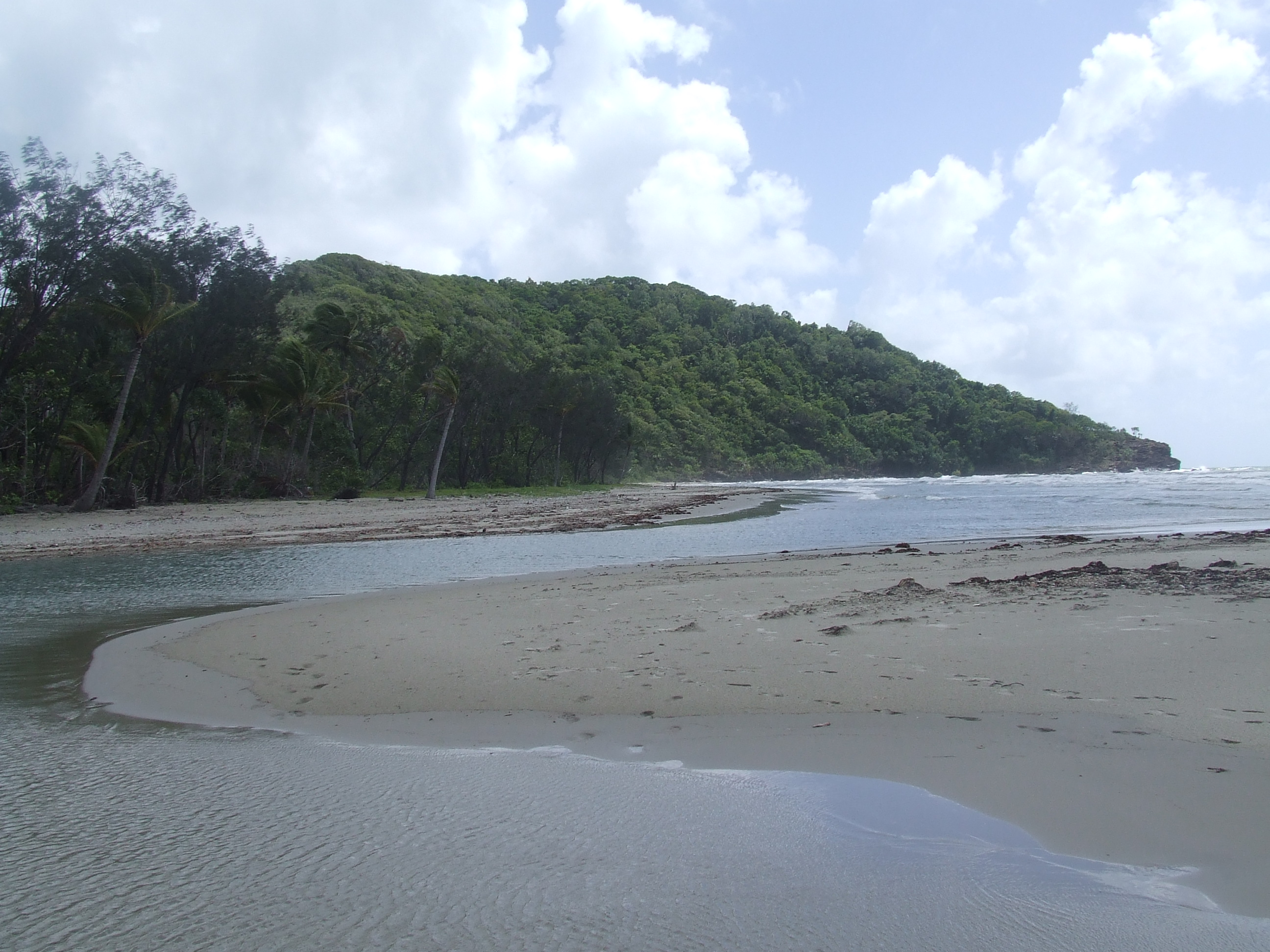 "Where the rain forest meets the reef". Accessed via the Dubuji boardwalk.